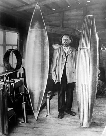 Konstantin Tsiolkovsky with models of his steel dirigibles.